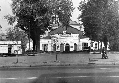 Culture house in Berdychiv